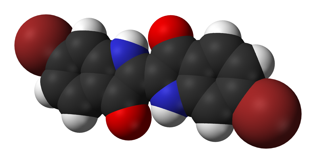 Space-filling model of the Tyrian purple molecule (6,6′-dibromoindigotin), C16H8N2O2Br2. X-ray crystallographic data from Sine Larsen and Frank Wätjen (1980). "The Crystal and Molecular Structures of Tyrian Purple (6,6'-Dibromoindigotin) and 2,2'-Dimethoxyindigotin". Acta Chem. Scand. 34A: 171-176. Image generated in Accelrys DS Visualizer.